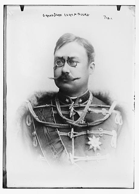 Grand Duke of Luxembourg, portr.